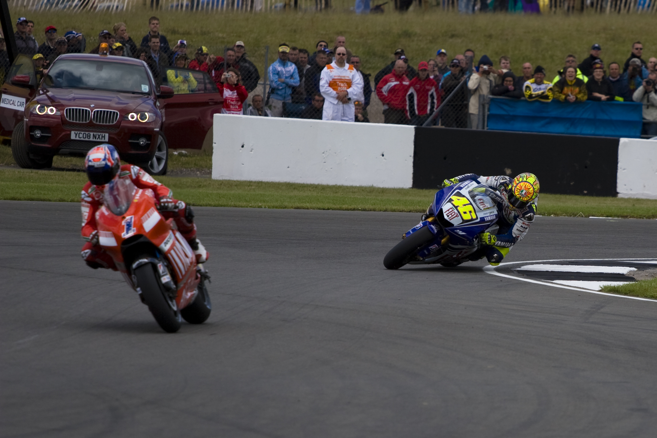 Casey Stoner, riding his Marlboro Ducati, being chased down by the FIAT Yamaha of Valentino Rossi at the 2008 British Grand Prix.